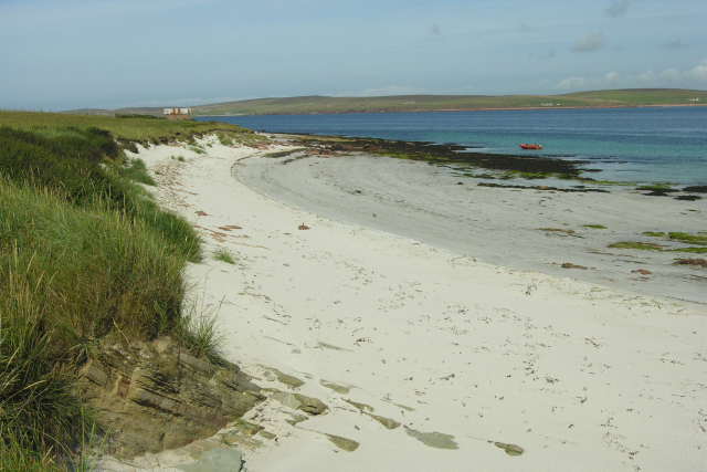 Scammalin Bay, Faray This beautiful bay lies on the South-East corner of Faray. In the middle distance lies the remains of the part ruined concrete jetty. In the far distance is the island of Eday.